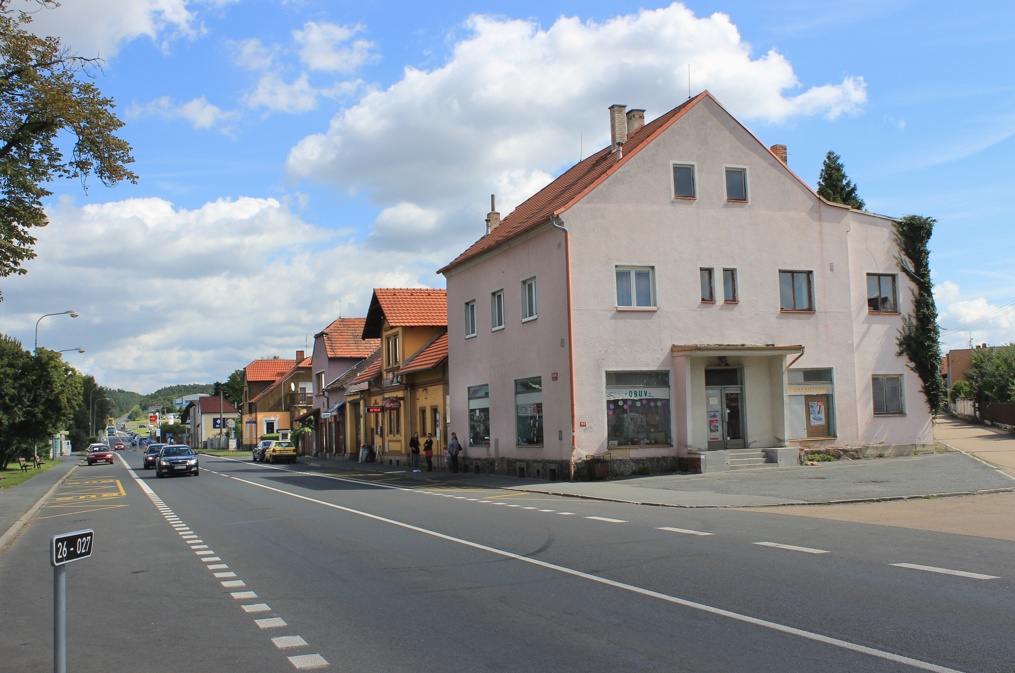 Jiráskova street in Holýšov, Czech Republic.